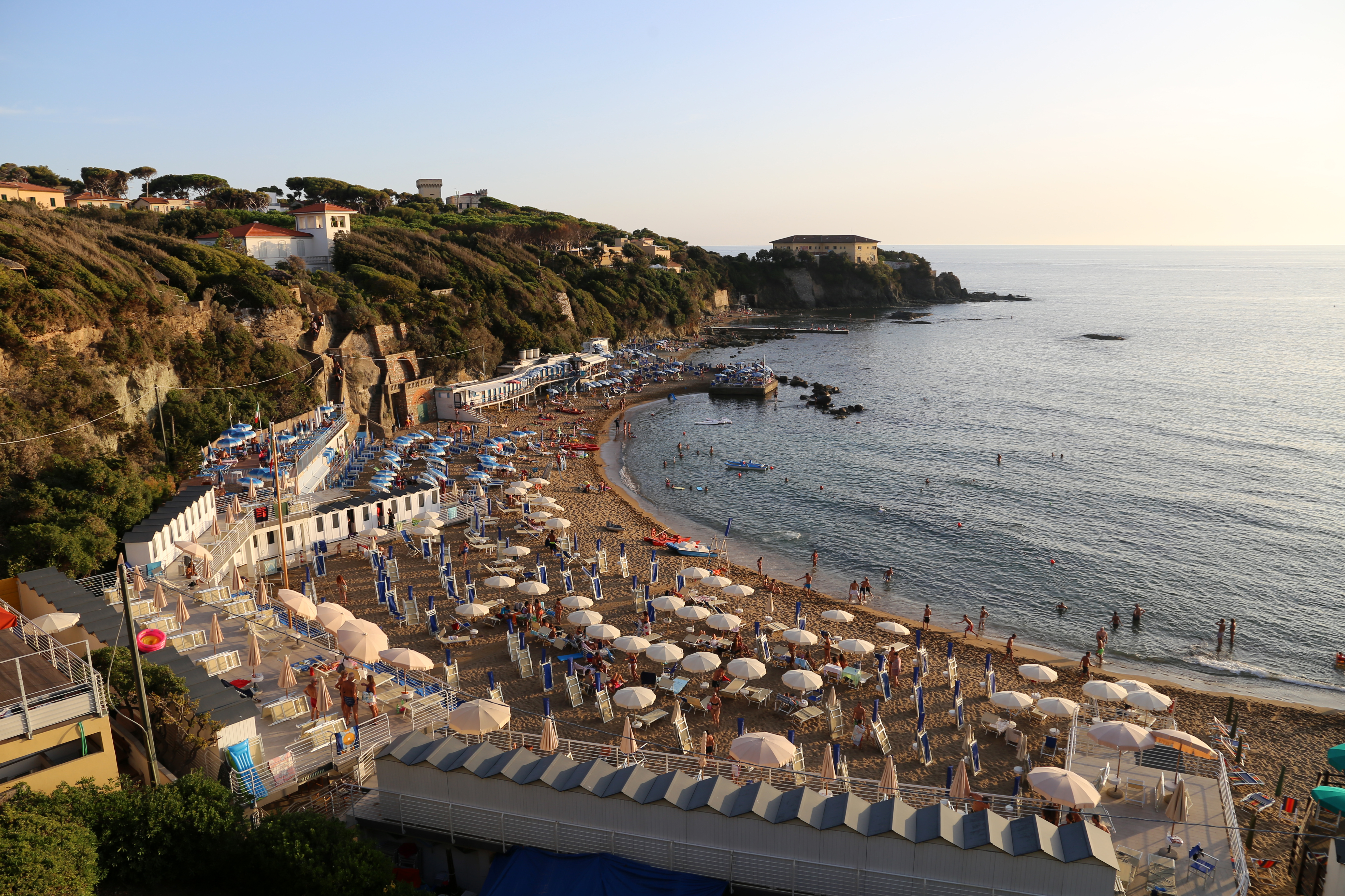 Views of Castiglioncello